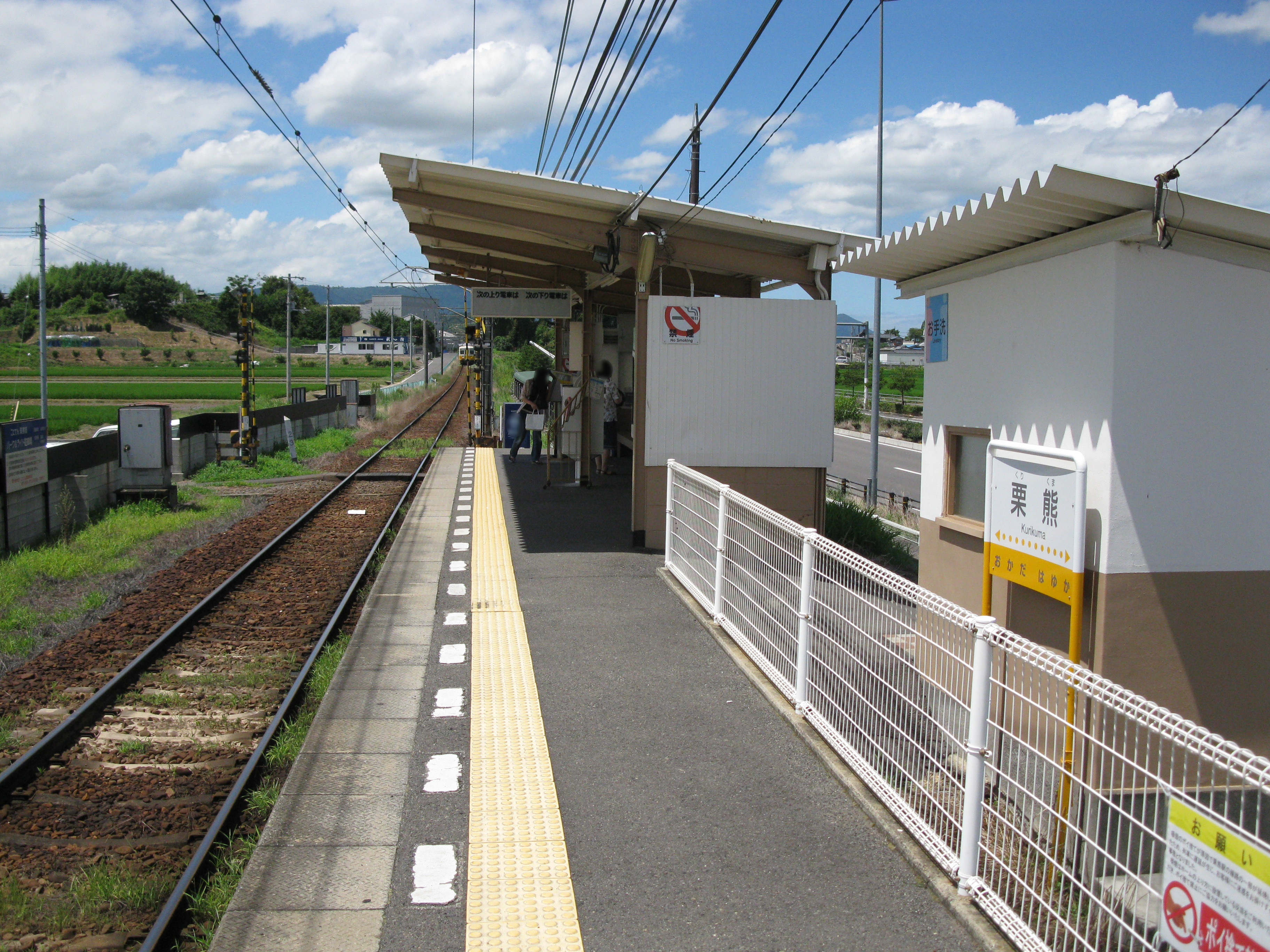 Kurikuma Station platform (Takamatsu-Kotohira Electric Railroad(Kotoden) Kotohira Line)